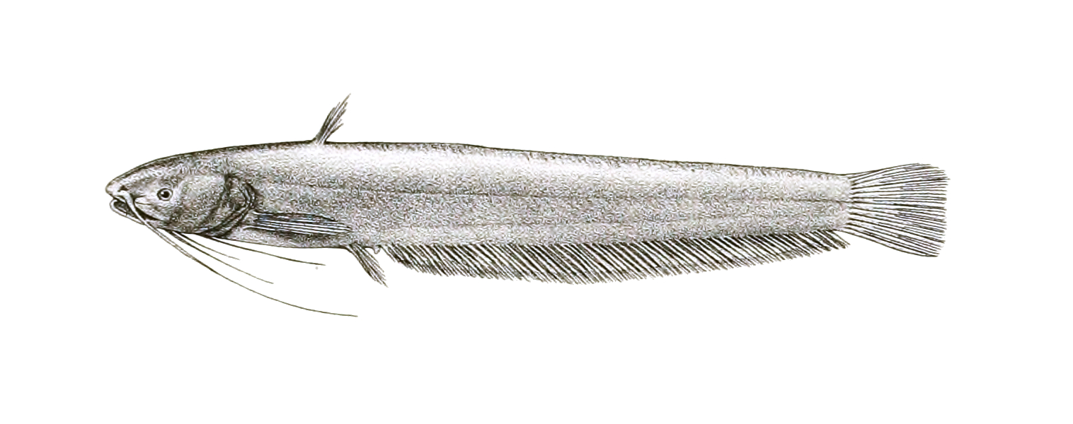 Pterocryptis cochinchinensis syn. Silurus cochinsinensisThe species names / identity need verification - original names from plate are included here. The original plates showed the fishes facing right and have been flipped here. Silurus cochinsinensis